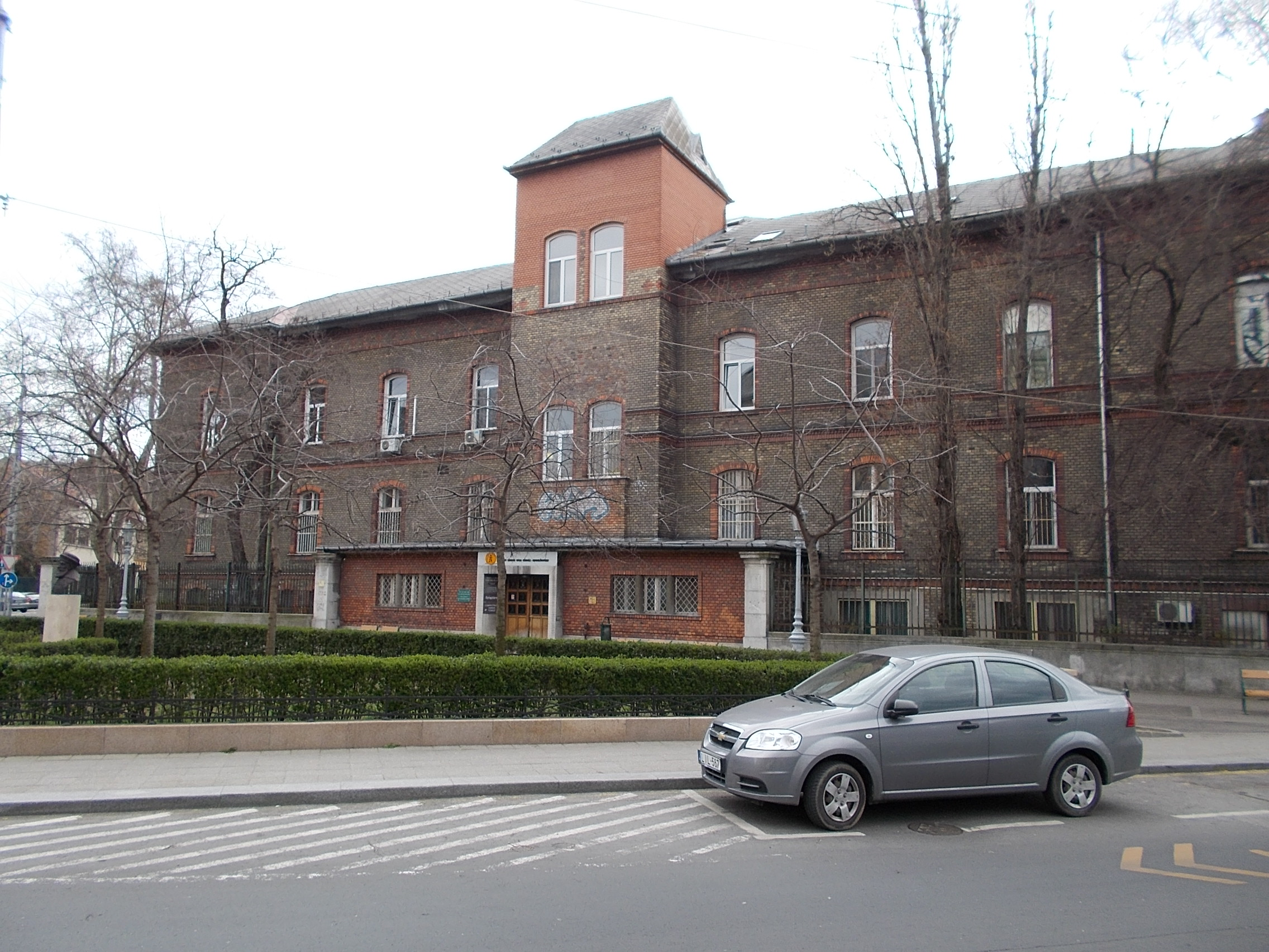 Péterfy Sándor Street Hospital. - Bethlen Gábor tér, Péterfy Sándor Street, Budapest District VII.